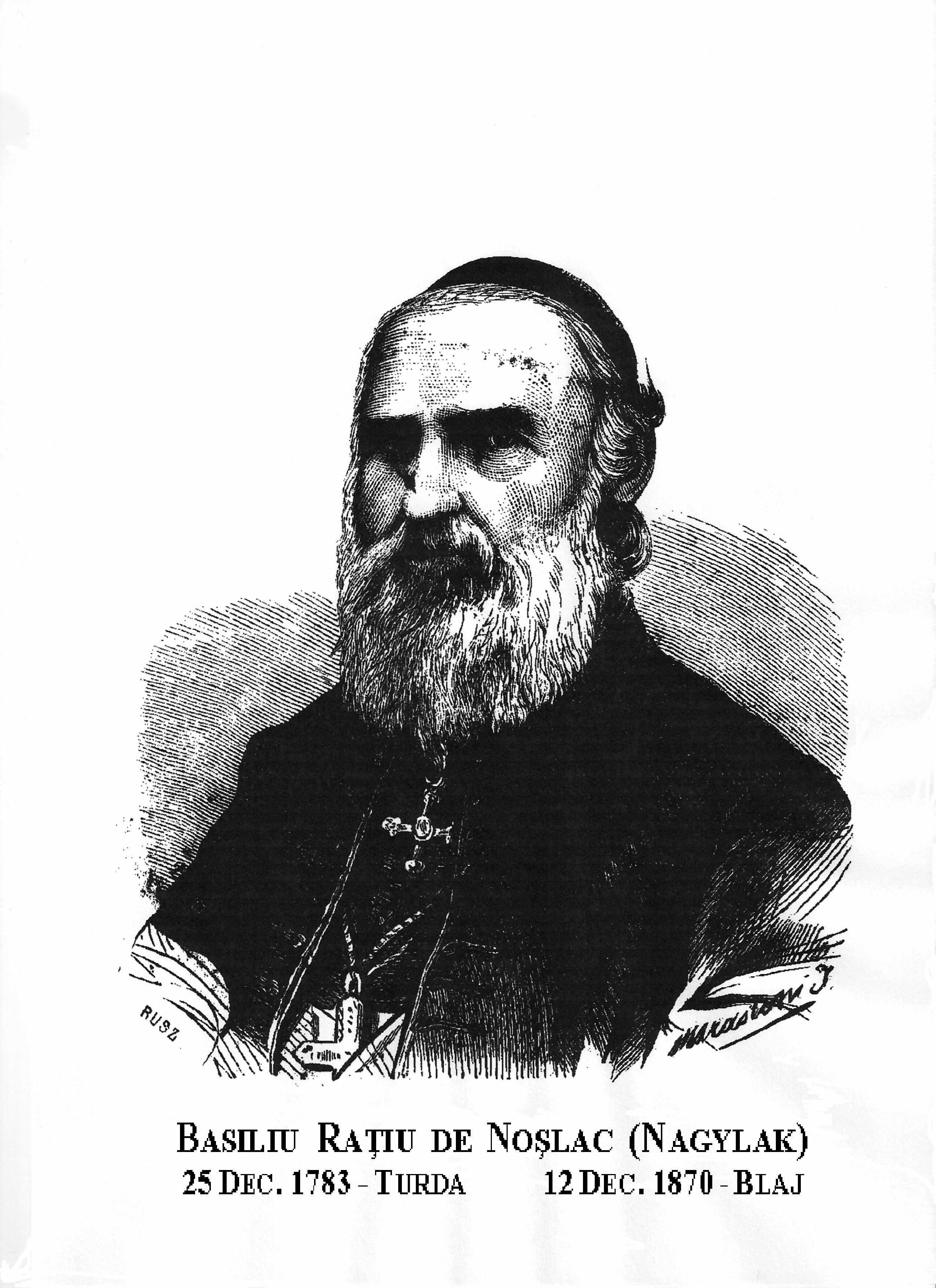 Canon Basiliu (Vasile) Rațiu de Nagylak (Noșlac).